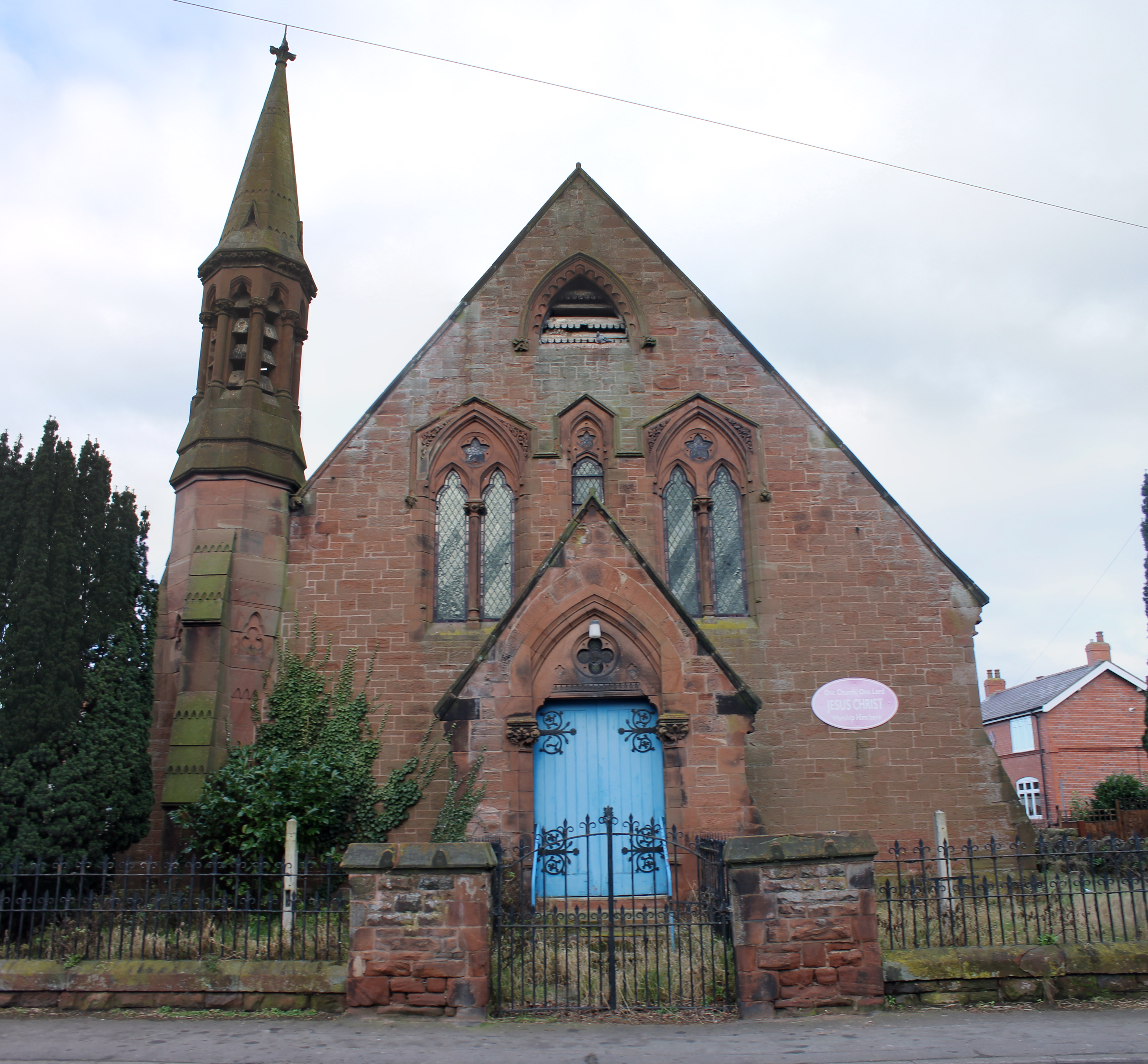 Presbyterian Church, Holt, Wrexham, Wales. Grade: II.